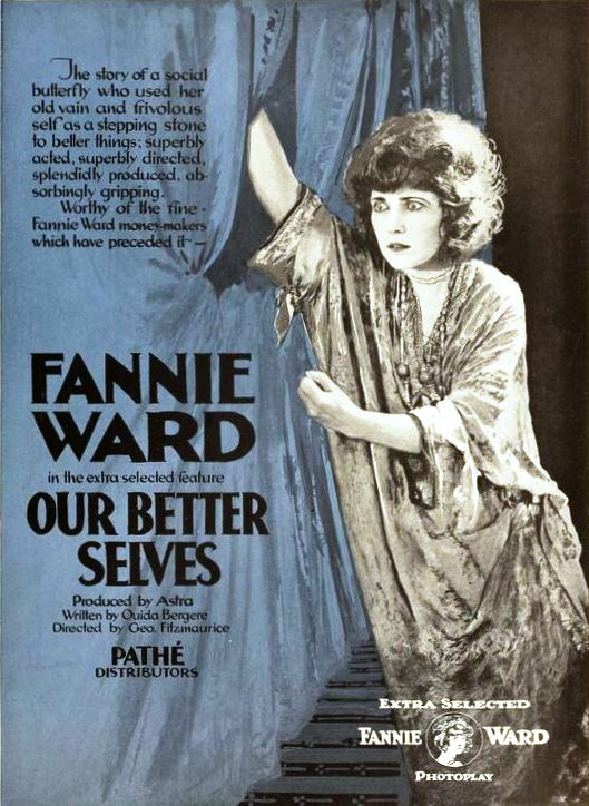 Ad for the American film Our Better Selves (1919) with Fannie Ward, page 741 of the July 19, 1919 Motion Picture News.